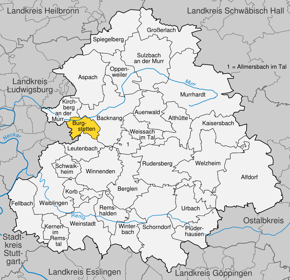 position of Burgstetten within the Rems-Murr-Kreis, Baden-Württemberg, Germany